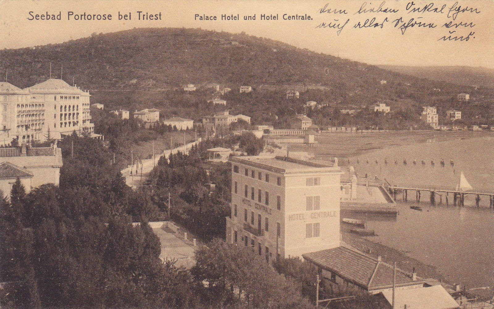 Postcard of Portorož.